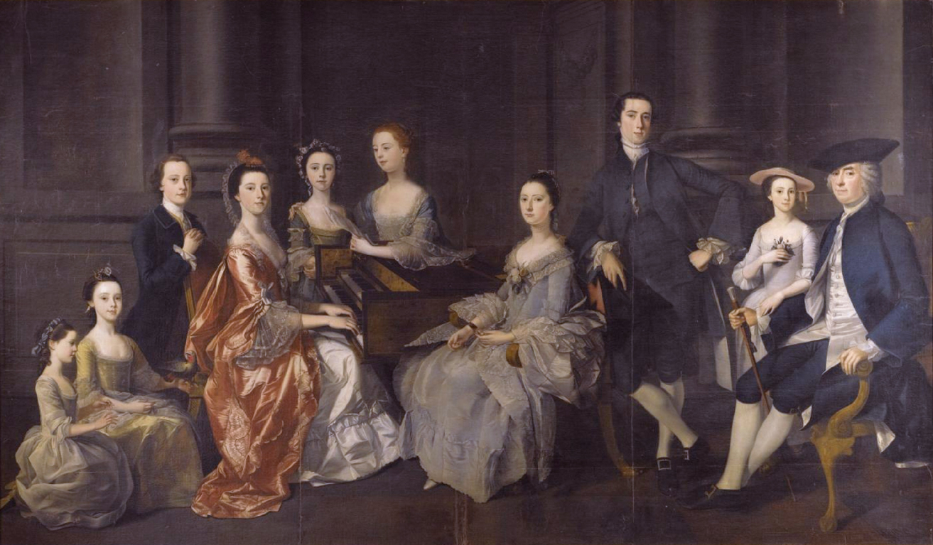 232 by 400 cm; signed and dated lower right: H. Pickering / pinxit 1755